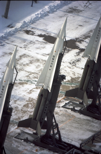 MIM-14 Nike-Hercules missile at the JASDF Naganuma Sub Base in Naganuma Town, Hokkaido, Japan